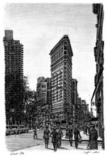 Flat Iron Building in New York by Stephen Wiltshire MBE Pen, ink and pencil on paper, original size: 297 x 420mm Date: 21st of November 2006